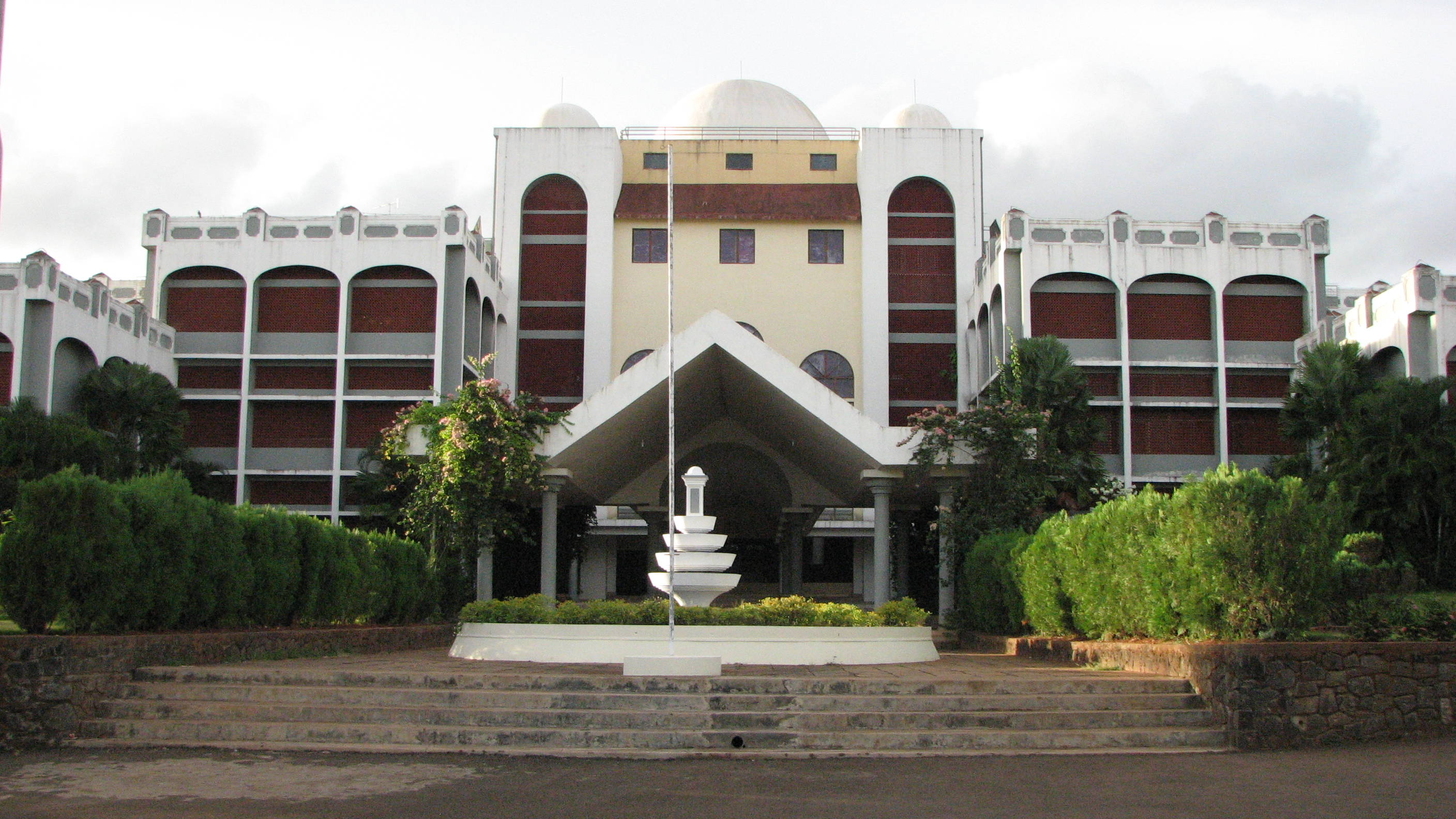 MES College of Engineering main Building.